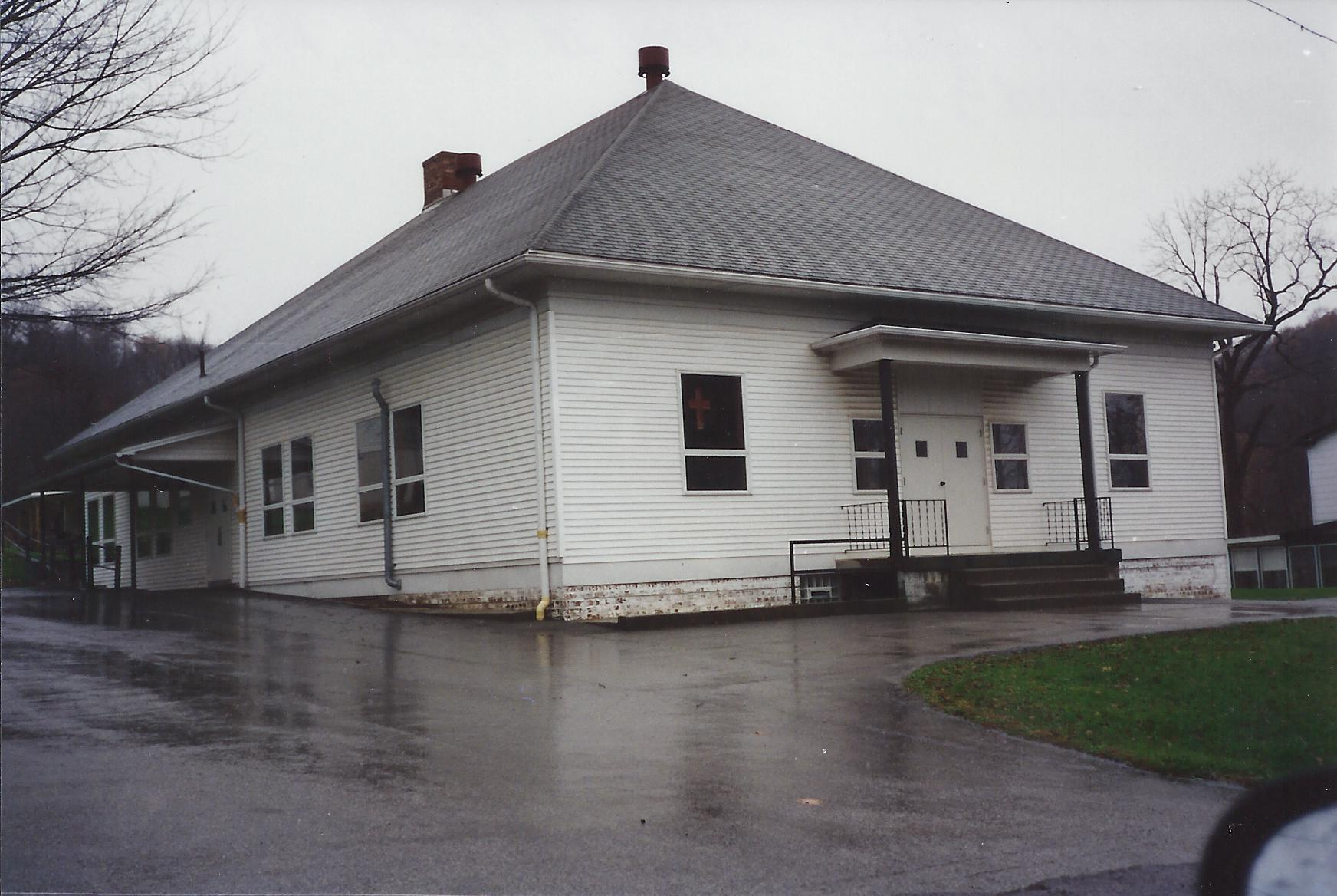 1930's era school house in Avella, Pennsylvania